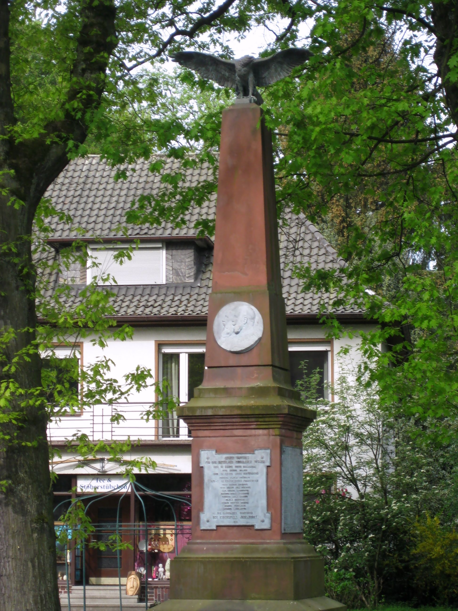 Memorial for soldiers killed in action in Gütersloh-Isselhorst